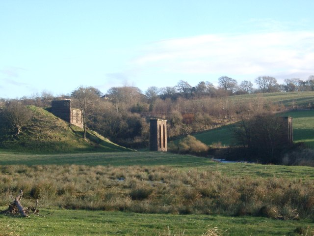 Dismantled railway bridge nr Glenfoot. over the River Devon near Tillicoultry